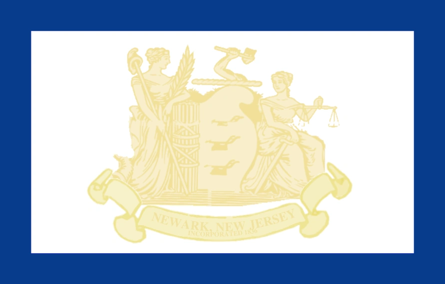 The official city flag of Newark, New Jersey, adopted in 1916.